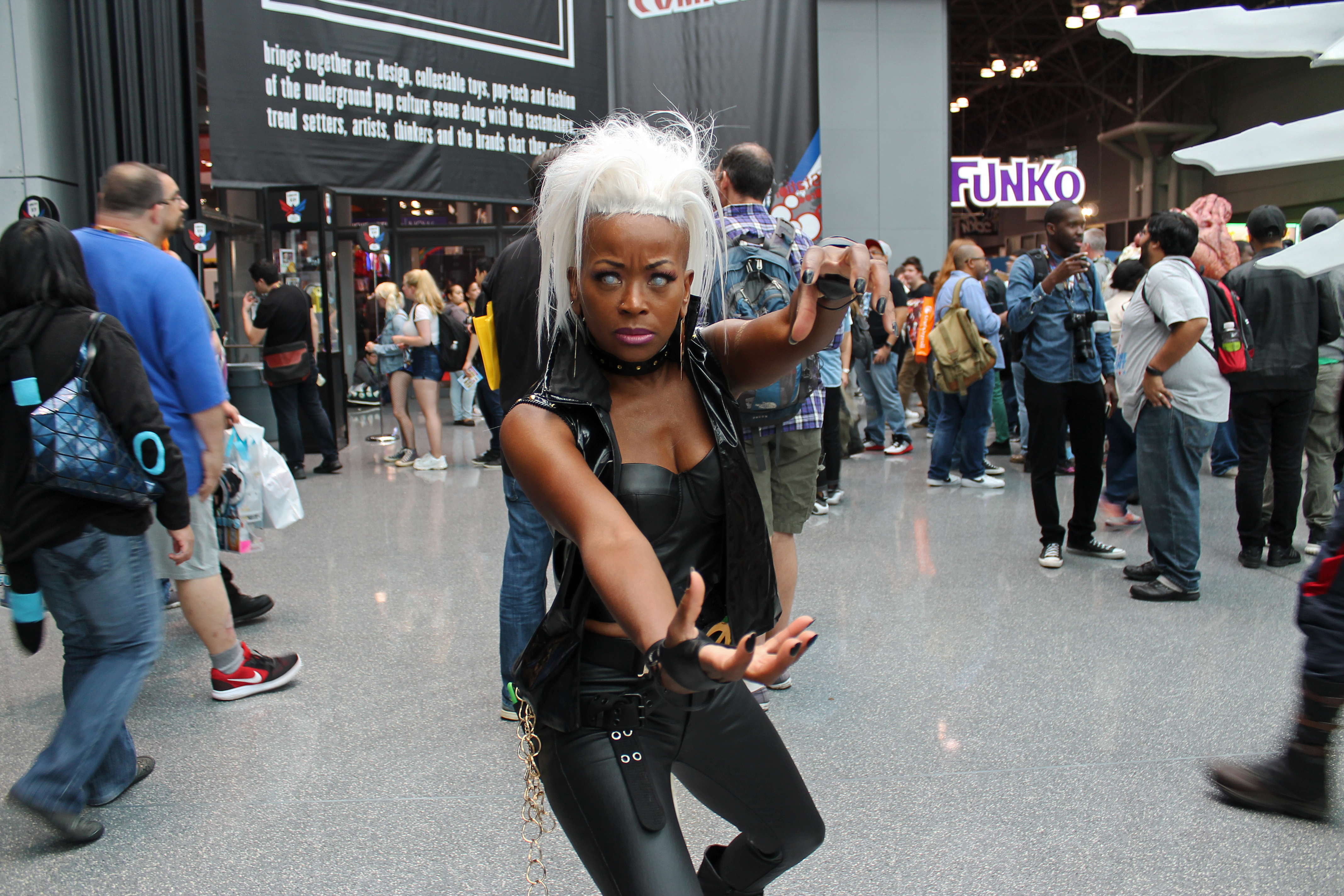 Cosplay at New York Comic Con 2016 (NYCC 2016).